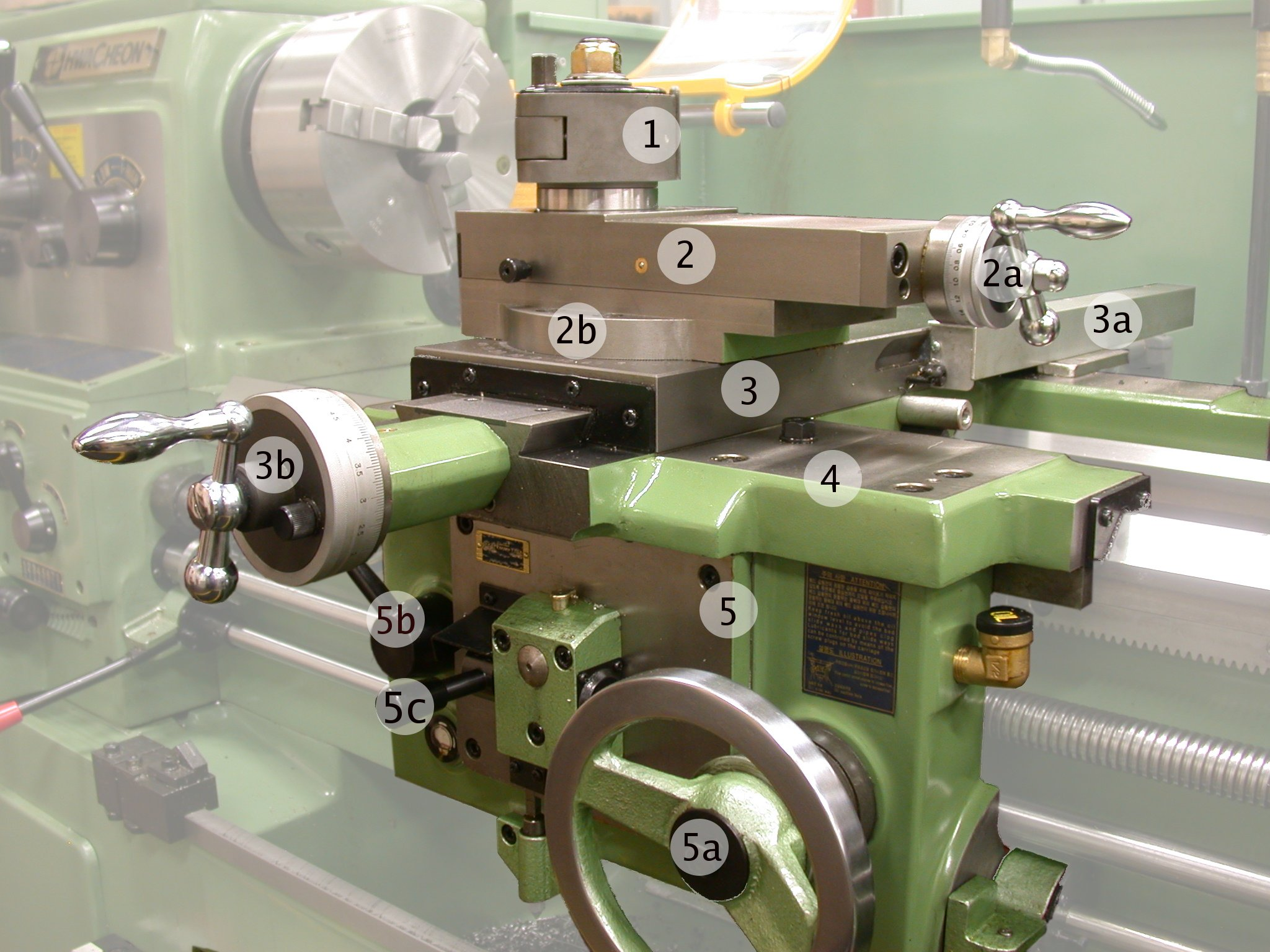 Highlighted carriage and components of Hwacheon centre lathe 1: Toolpost, 2: top-slide, 2a: top-slide feedscrew and dial, 2b: Compound portion of top-slide (protractor), 3: cross-slide, 3a: cross-slide DRO scale, 3b: cross-slide feedscrew and dial, 4: saddle, 5: apron, 5a: carriage handwheel, 5b: half-nuts lever, 5c: feed lever